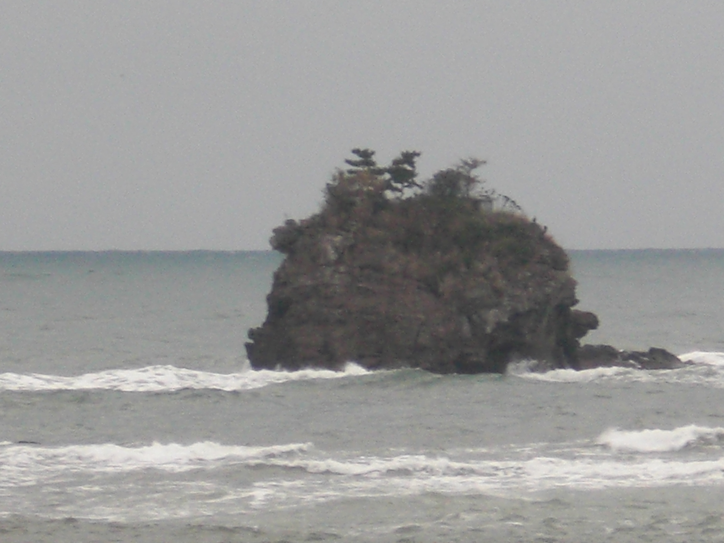 This is the Otoko Rock, which is located in Takaoka, Toyama, Japan.